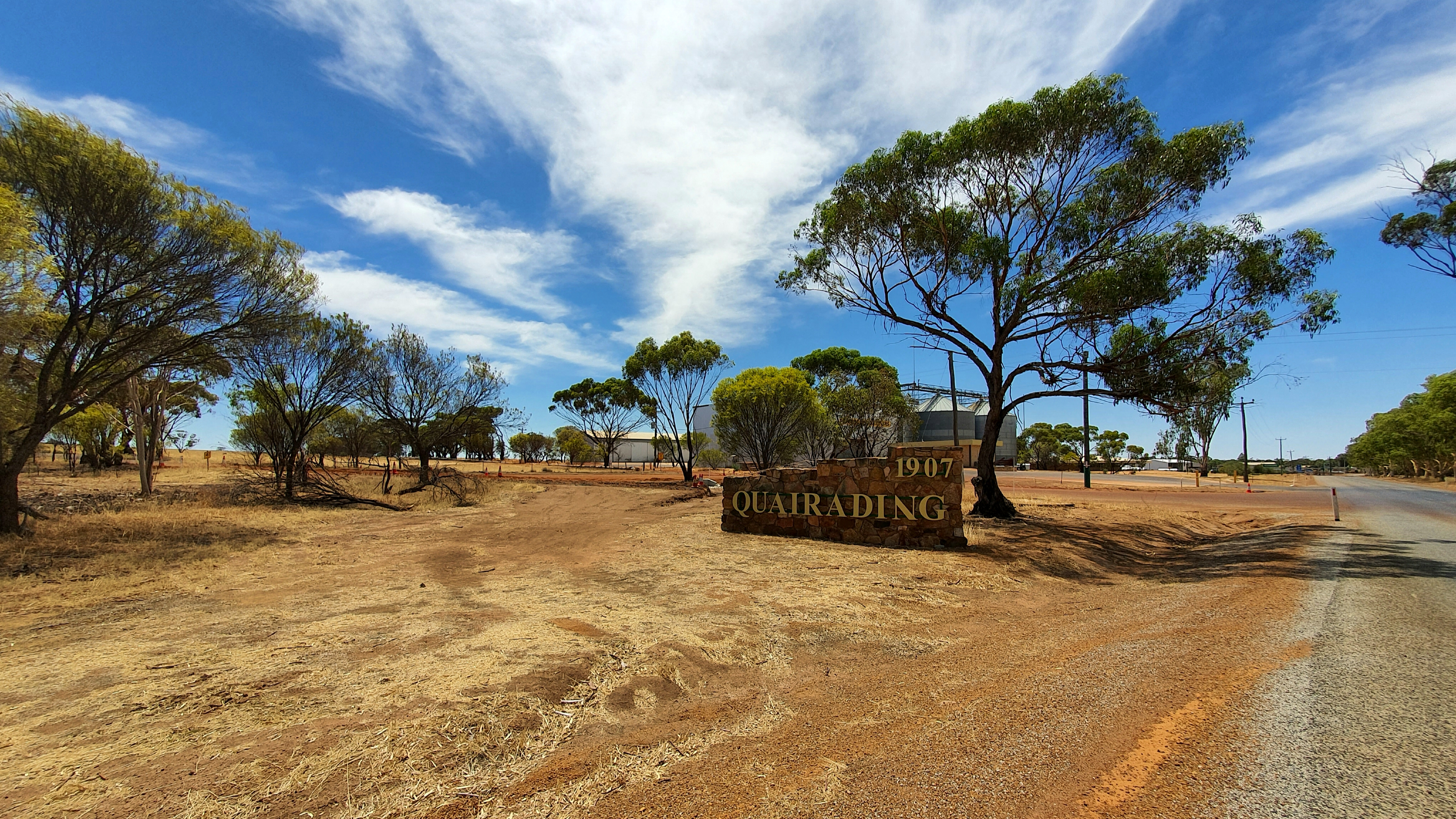 This is the sign you see when you first arrive in town